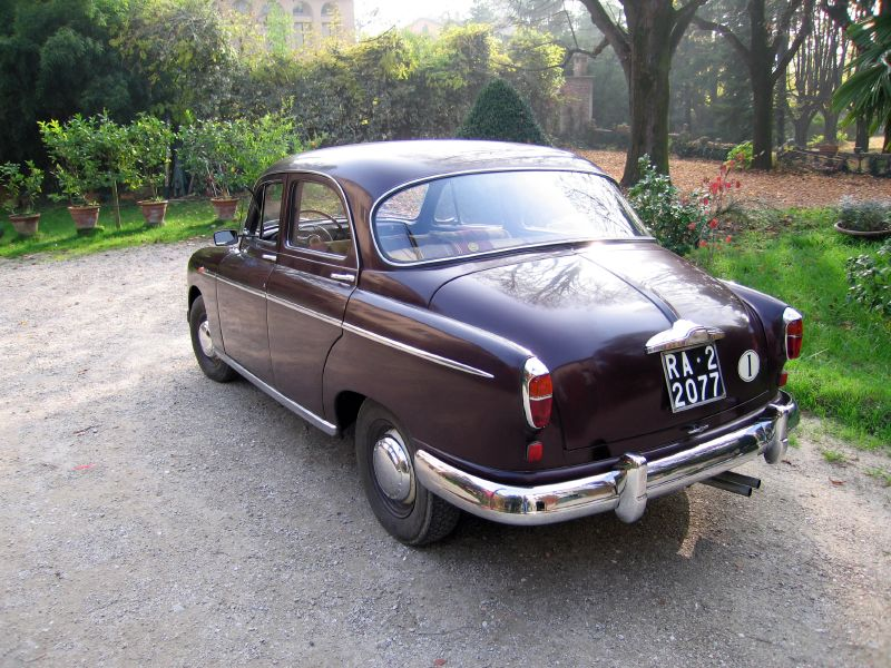 Fiat 1900 - rear